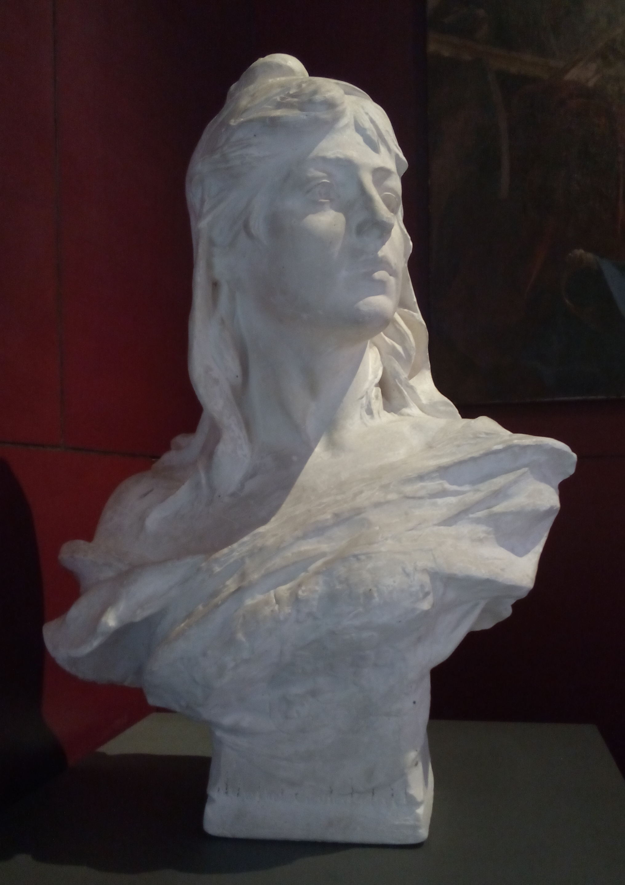 Bust of the Republic (1908), by José Simões de Almeida (nephew), in the Museum of the Presidency of the Portuguese Republic, in Lisbon, Portugal.